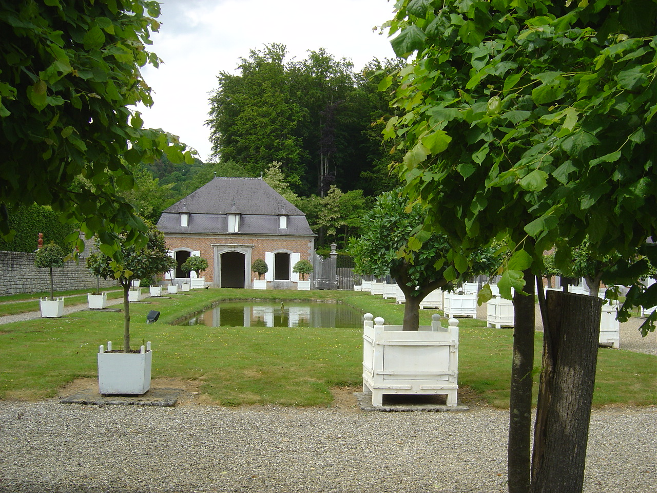 View from the castle of Freÿr (Waulsort) in its gardens (XVII/XVIIIth centuries) towards the orangery